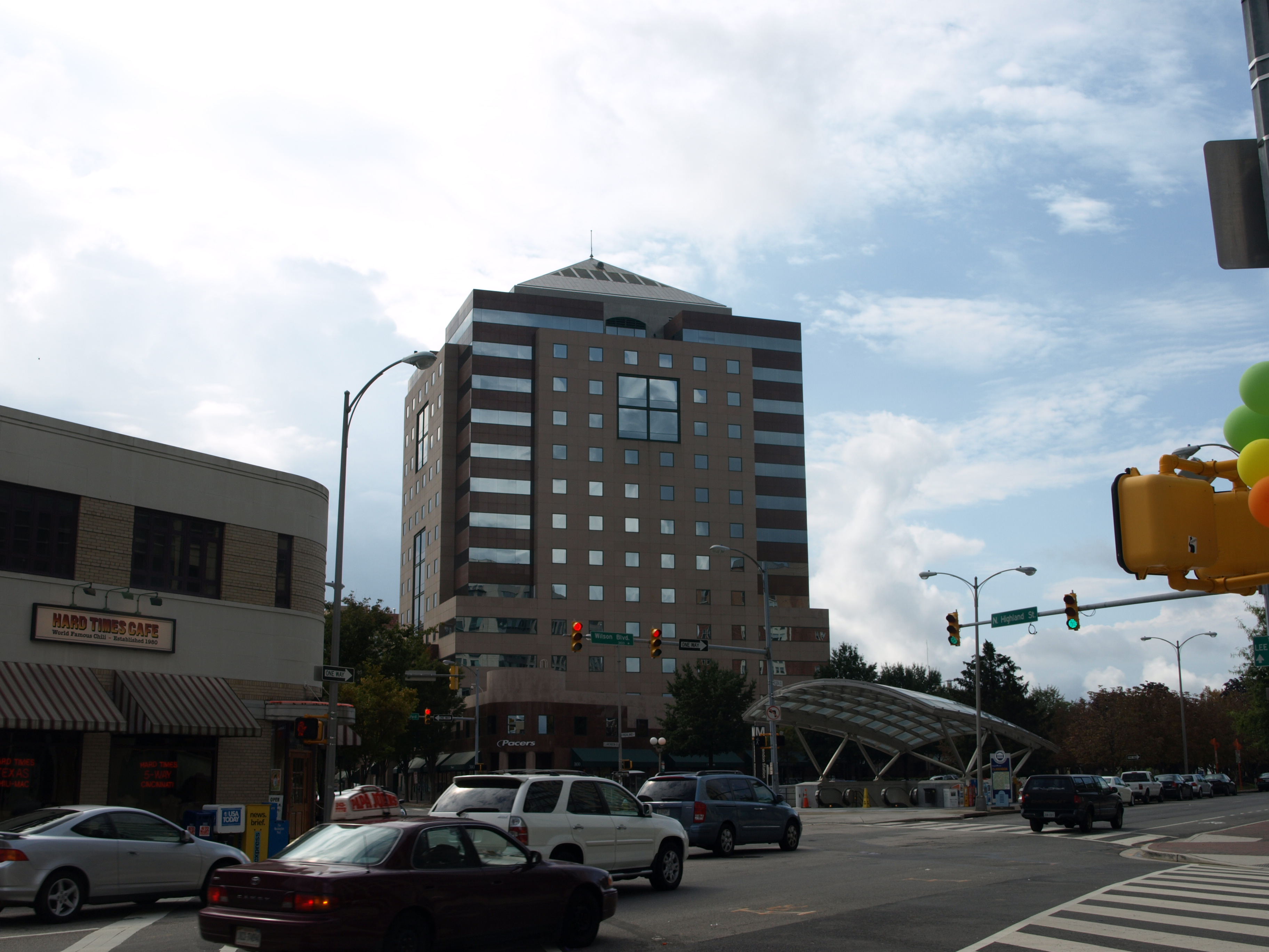 Corner of N. Highland Street and Wilson Blvd in Clarendon, with Clarendon Metro Station and Olmsted Building in background